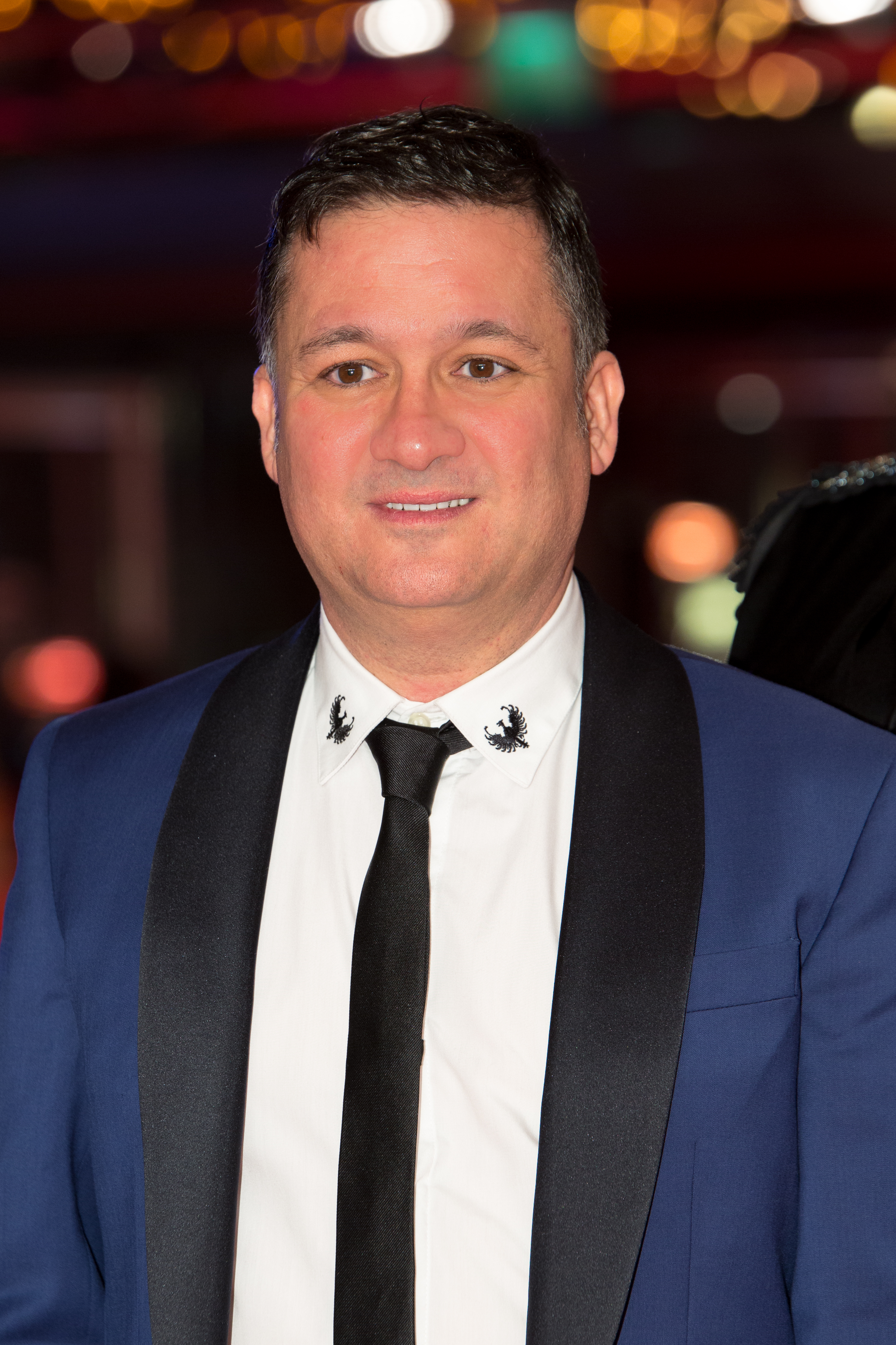 The actor and writer Secun de la Rosa presenting the movie The Bar at the Berlinale 2017